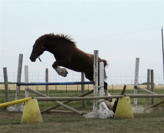 Welsh cob free jumping